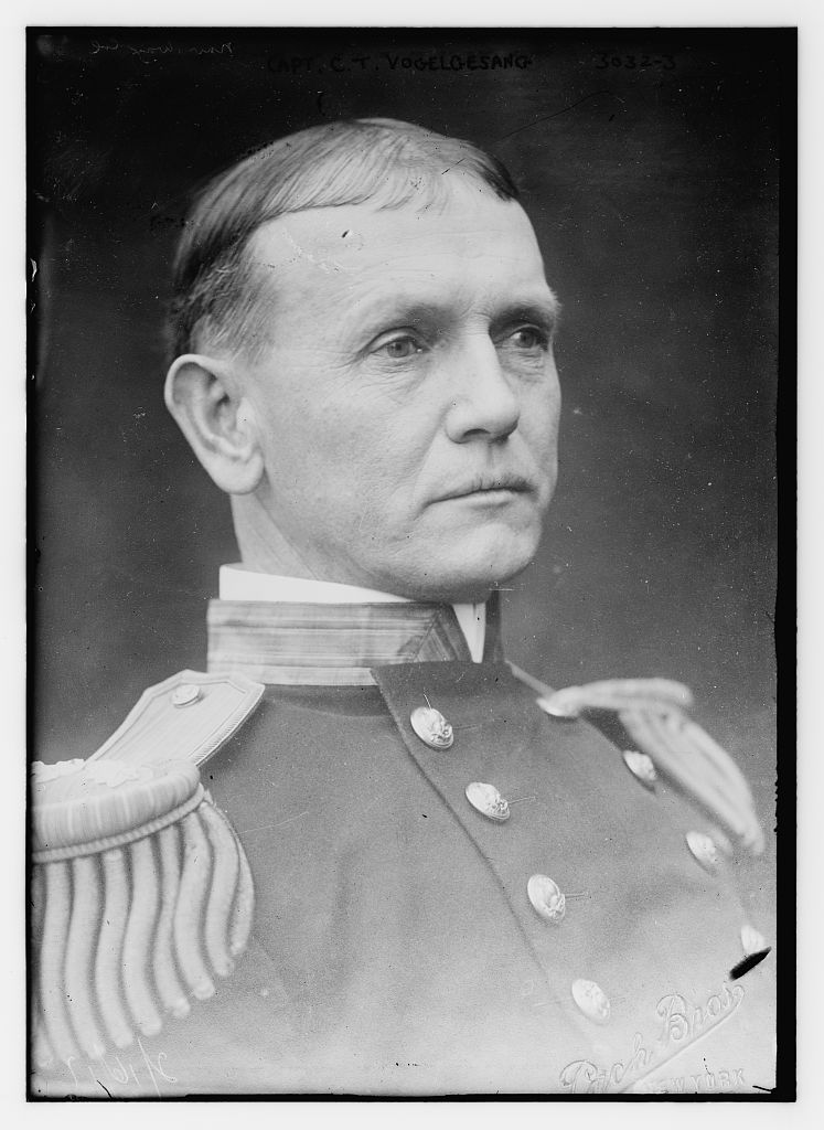 U.S. Navy Rear Admiral Carl Theodore Vogelgesang, when Captain in 1915. The following is verbatim from the Library of Congress object page: Bain News Service,, publisher. Capt. C. T. Volgelgesang in 1915 [between ca. 1910 and ca. 1915] 1 negative : glass ; 5 x 7 in. or smaller. Notes: Title from unverified data provided by the Bain News Service on the negatives or caption cards. Forms part of: George Grantham Bain Collection (Library of Congress). Format: Glass negatives. Repository: Library of Congress, Prints and Photographs Division, Washington, D.C. 20540 USA, General information about the Bain Collection is available at Persistent URL: Call Number: LC-B2- 3032-3